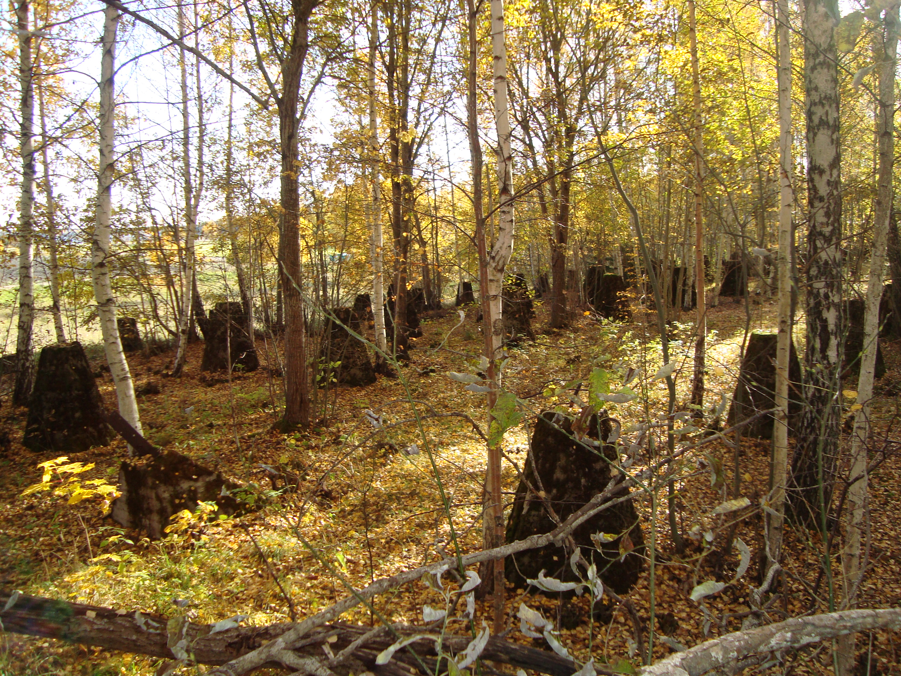 Iron works of Näs. Avesta municipality, Sweden. The coalhouse was one of Northern Europe's largest wooden buildings at the time.